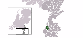 Location of Meersen